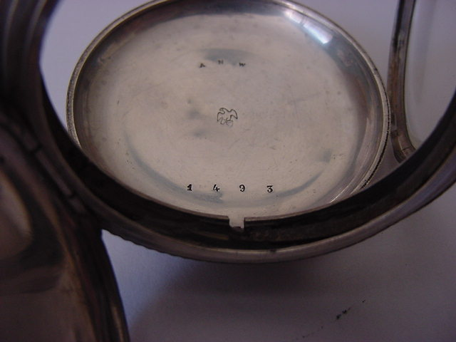 Case back inside photo with halmark of the waltham watch company a model 57 american made case photo